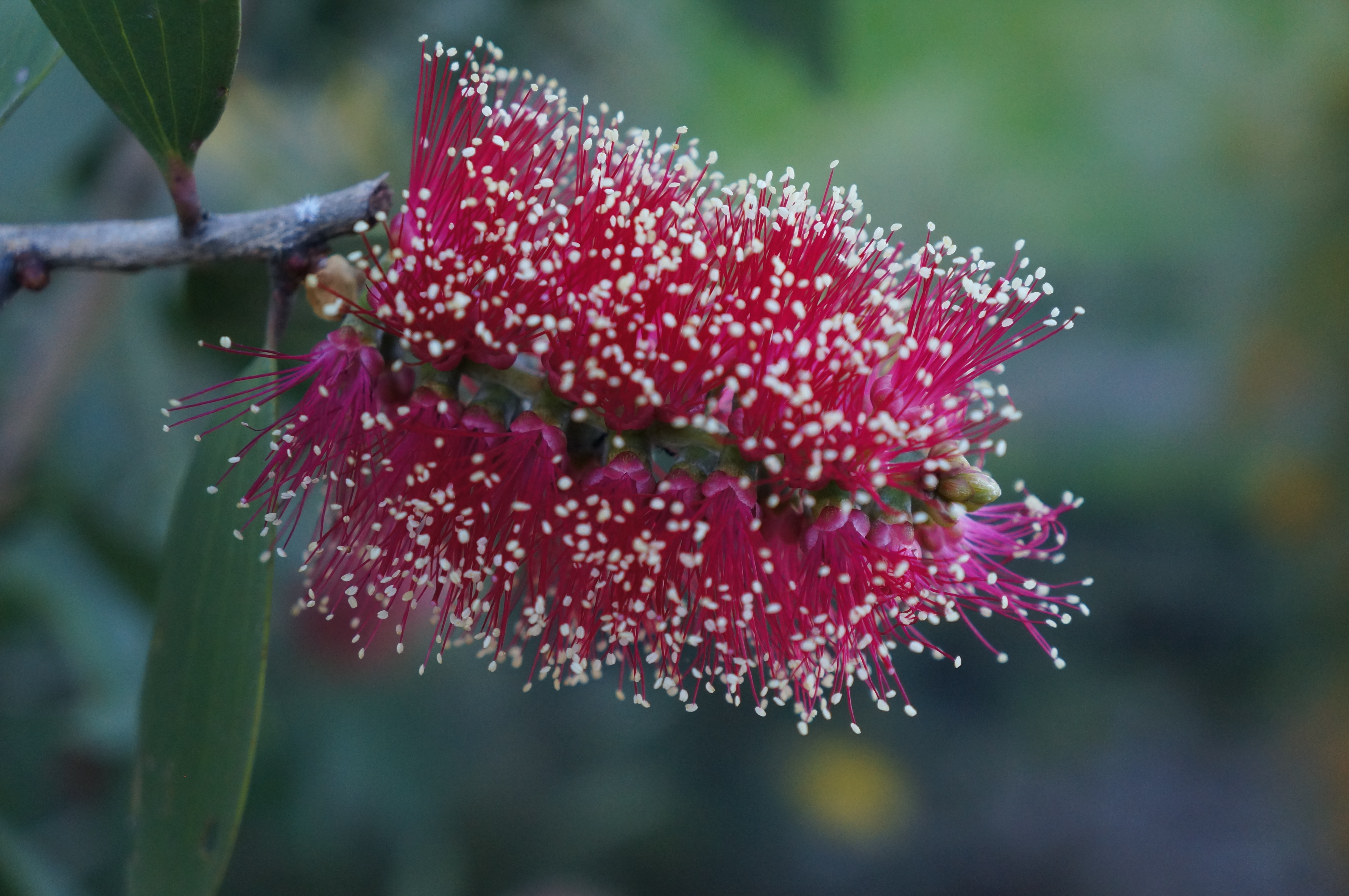 Flower of Melaleuca viridiflora (red-form). Taken in private garden.